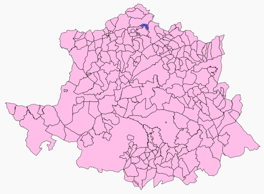 Map of La Pesga